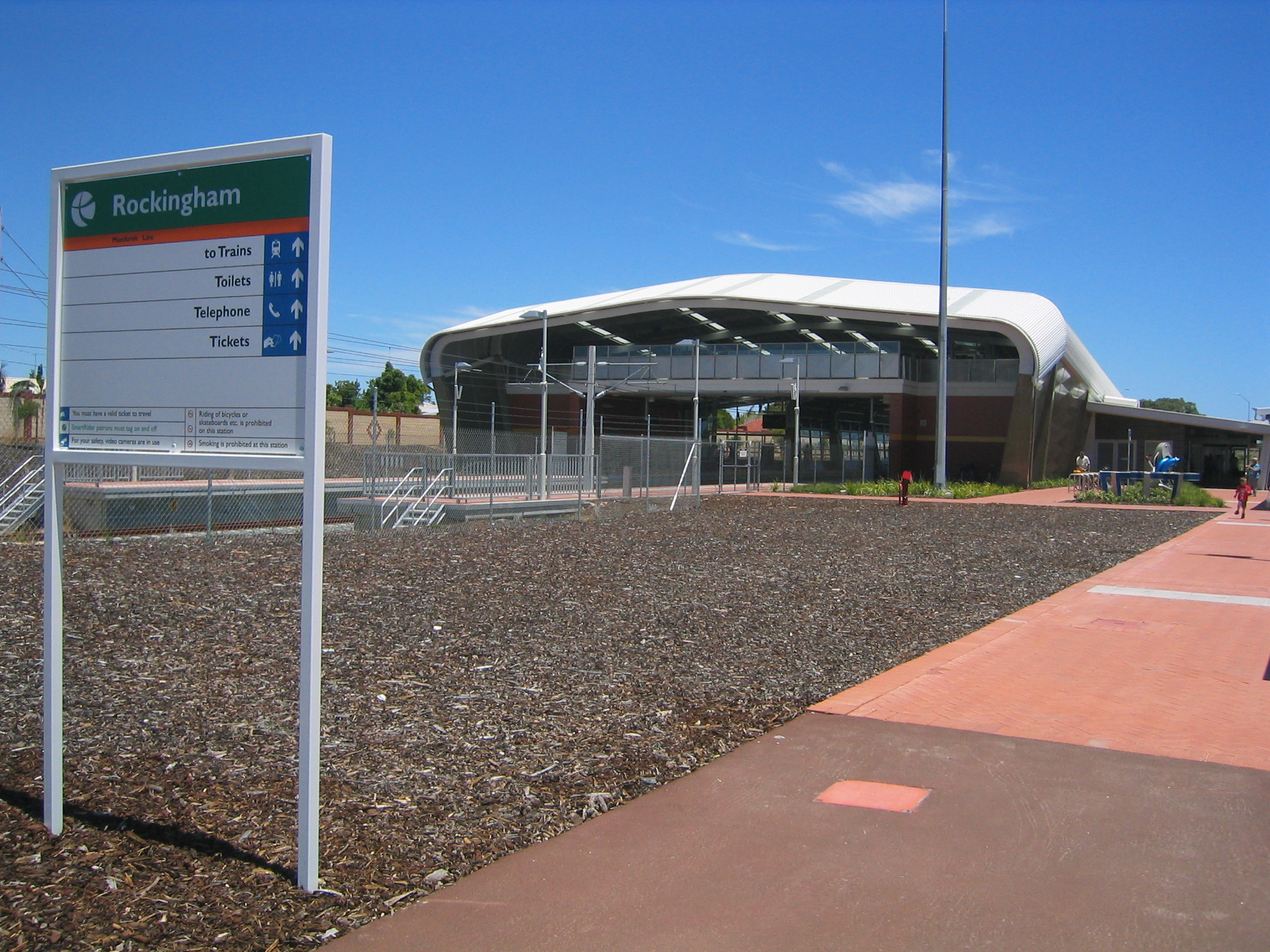 Transperth Rockingham Station